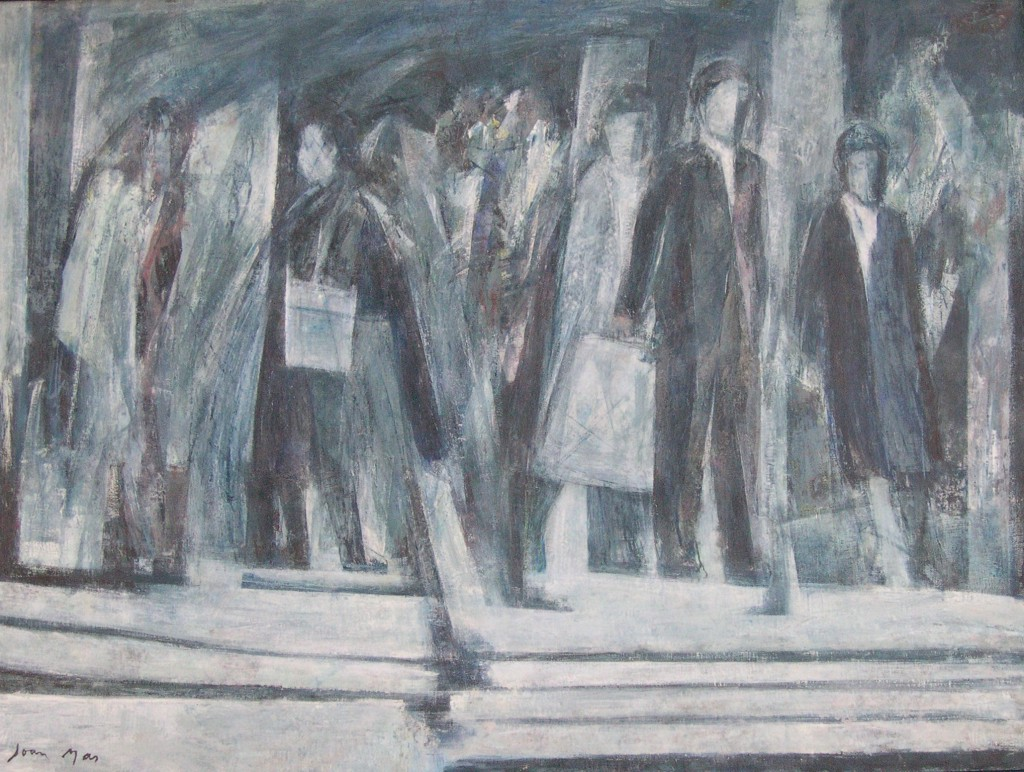 Gente, oil on canvas